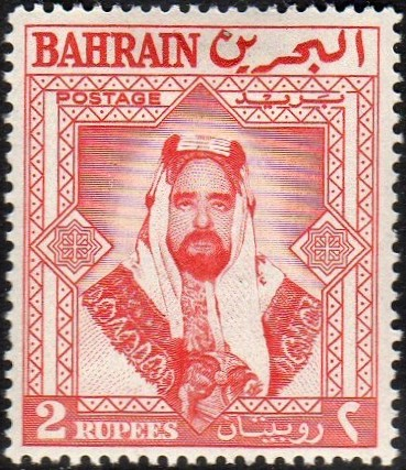 A postage stamp of Bahrain, 1960, 2 rupees, Scott #127. Sheikh Salman ibn Hamad Al Khalifa (1894–1961).